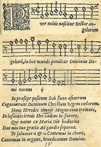 The first page of Puer nobis nascitur ("Unto us is born a son") in the original version of the Piae Cantiones